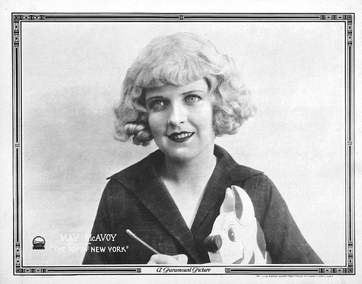 Lobby card featuring May McAvoy from the 1922 film The Top of New York.